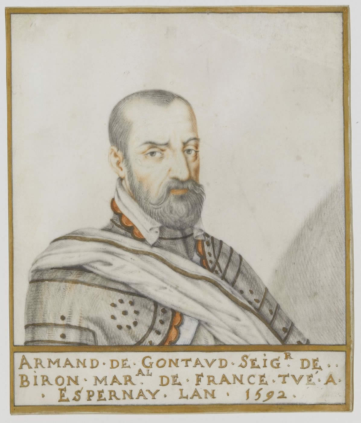 Portrait of Armand de Gontaut-Biron, Marshal of France (1524-92)